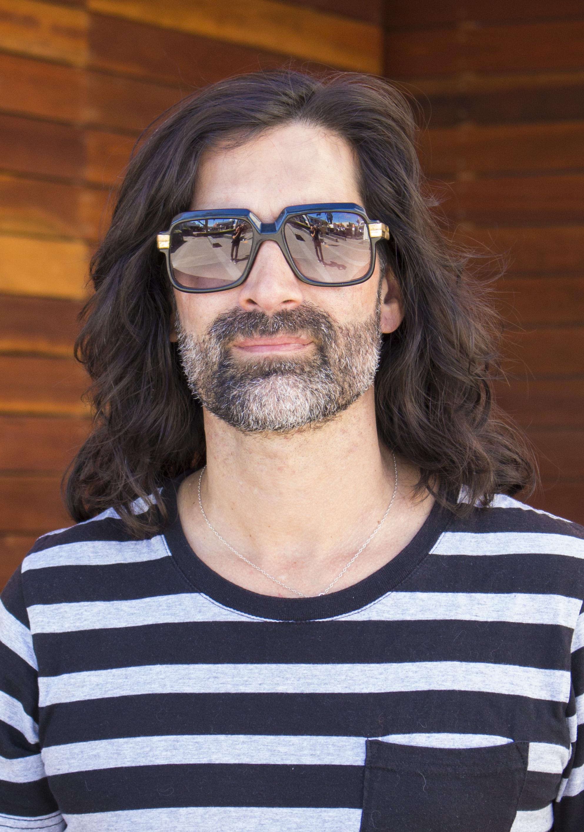 Perth-based street artist Stormie Mills.